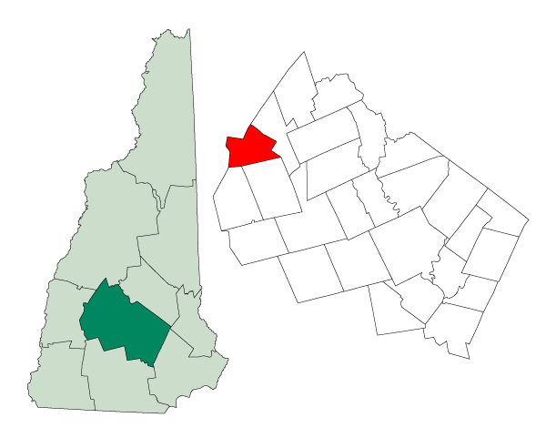 Map of a municipality in Merrimack County, New Hampshire